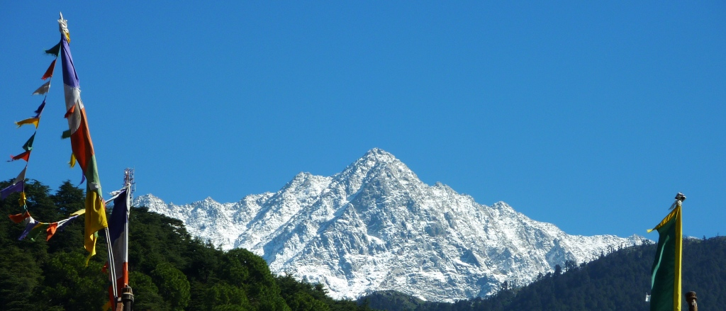 I took this photo from just above McLeod Ganj